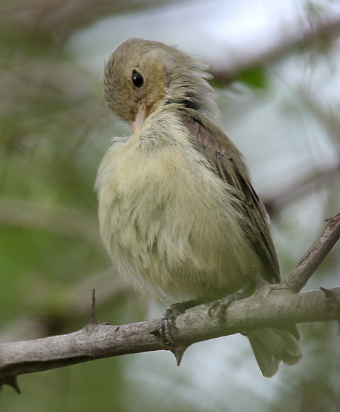 Pale-billed Flowerpecker Dicaeum erythrorhynchos in Hyderabad , India.